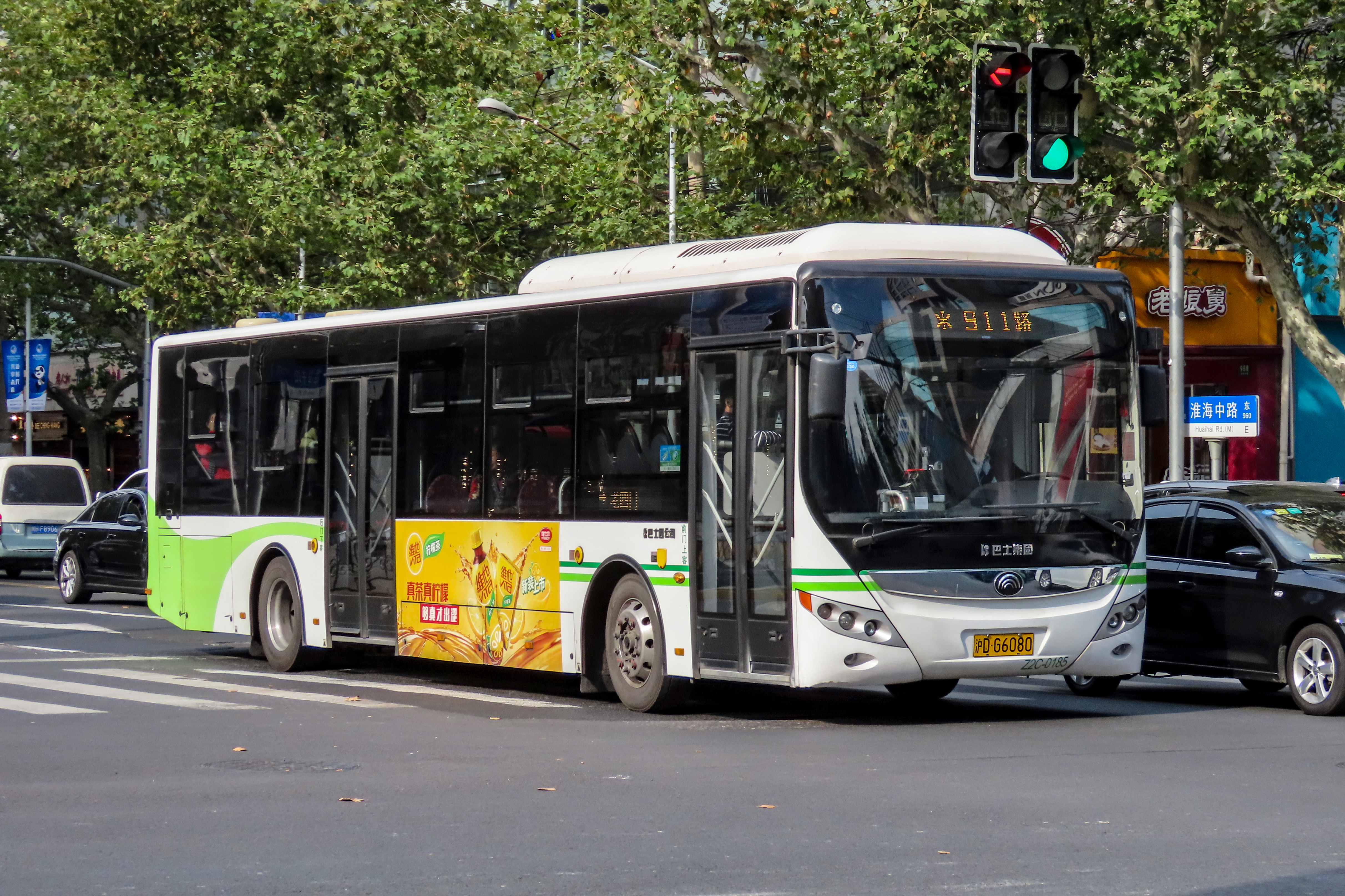 Now the main force of 911 is ZK6125BEVG6, running from Hangnan Rd, Hangdong Rd to Laoximen.